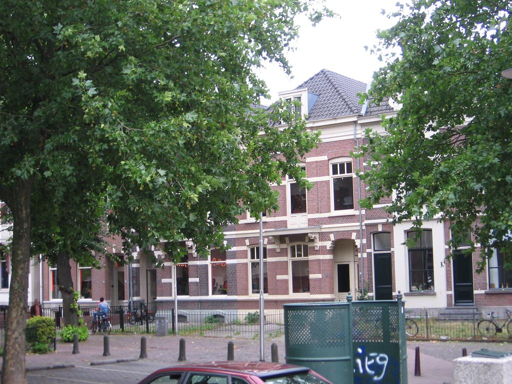 Photograph of a brick building.